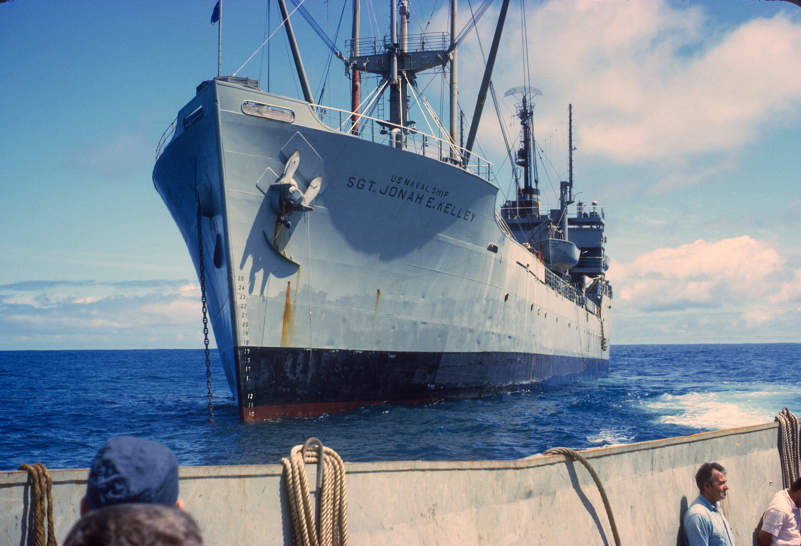 The Jonah E. Kelly was my and 50 others home for several months while we constructed our base camp on the island. Although classified then, it has sense been declassified that we were electronically monitoring nuclear test in the pacific during the late 1960's. Possibly one of the last missions of the Kelley.